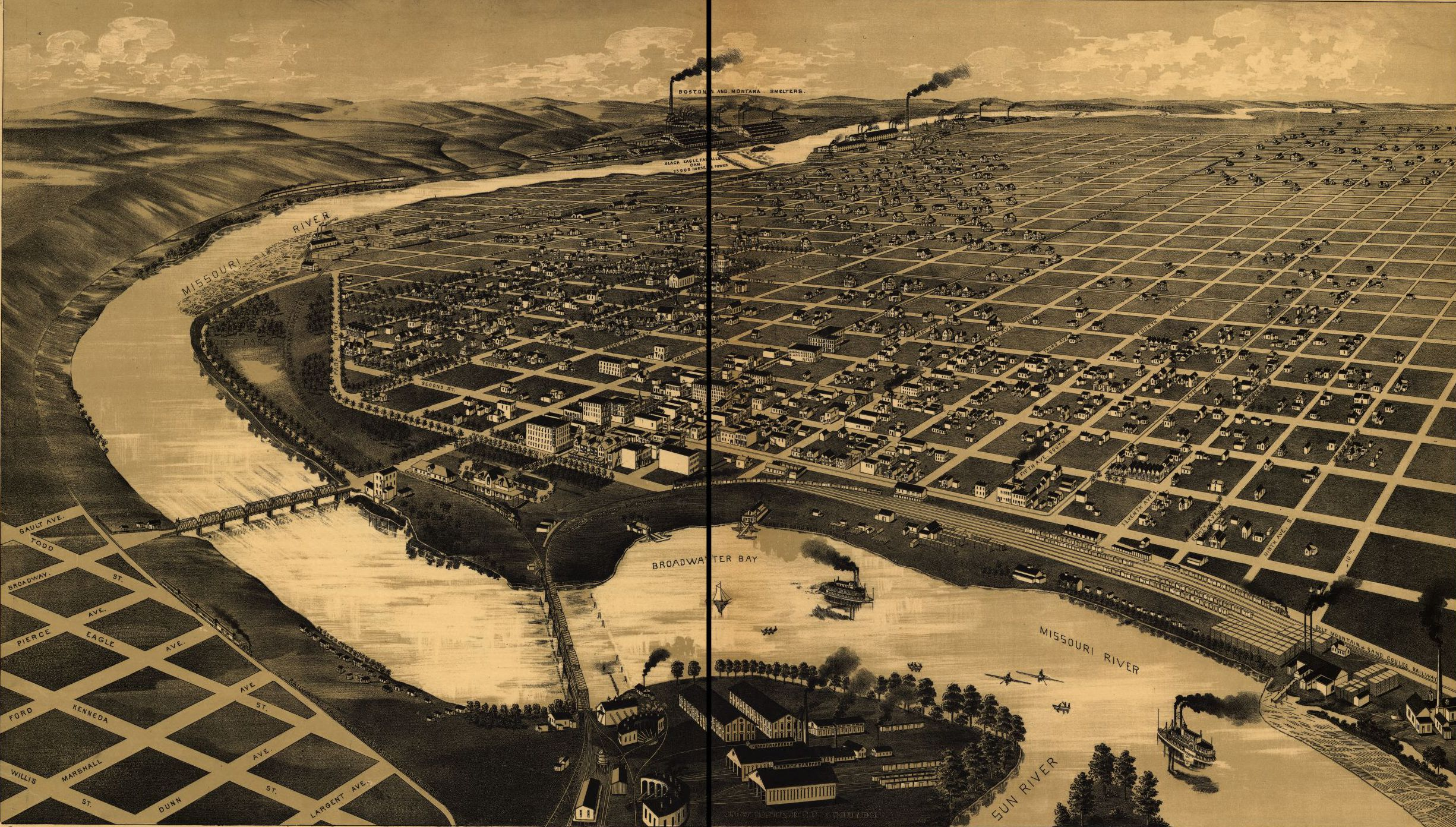 Perspective map of the Missouri River and Great Falls, Montana.